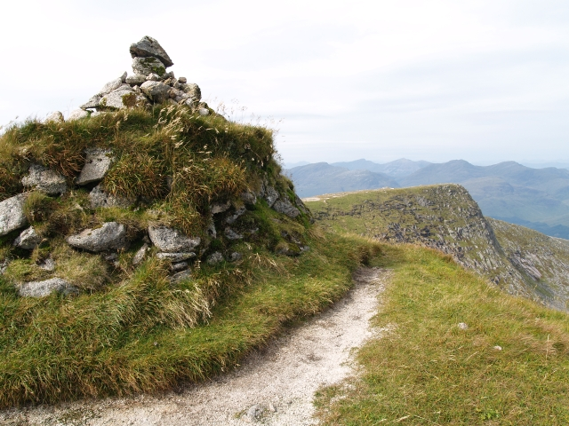 Summit Cairn, Stob Coir an Albannaich. Perched on the edge of a steep cliff to the N, with a fine view in all directions.